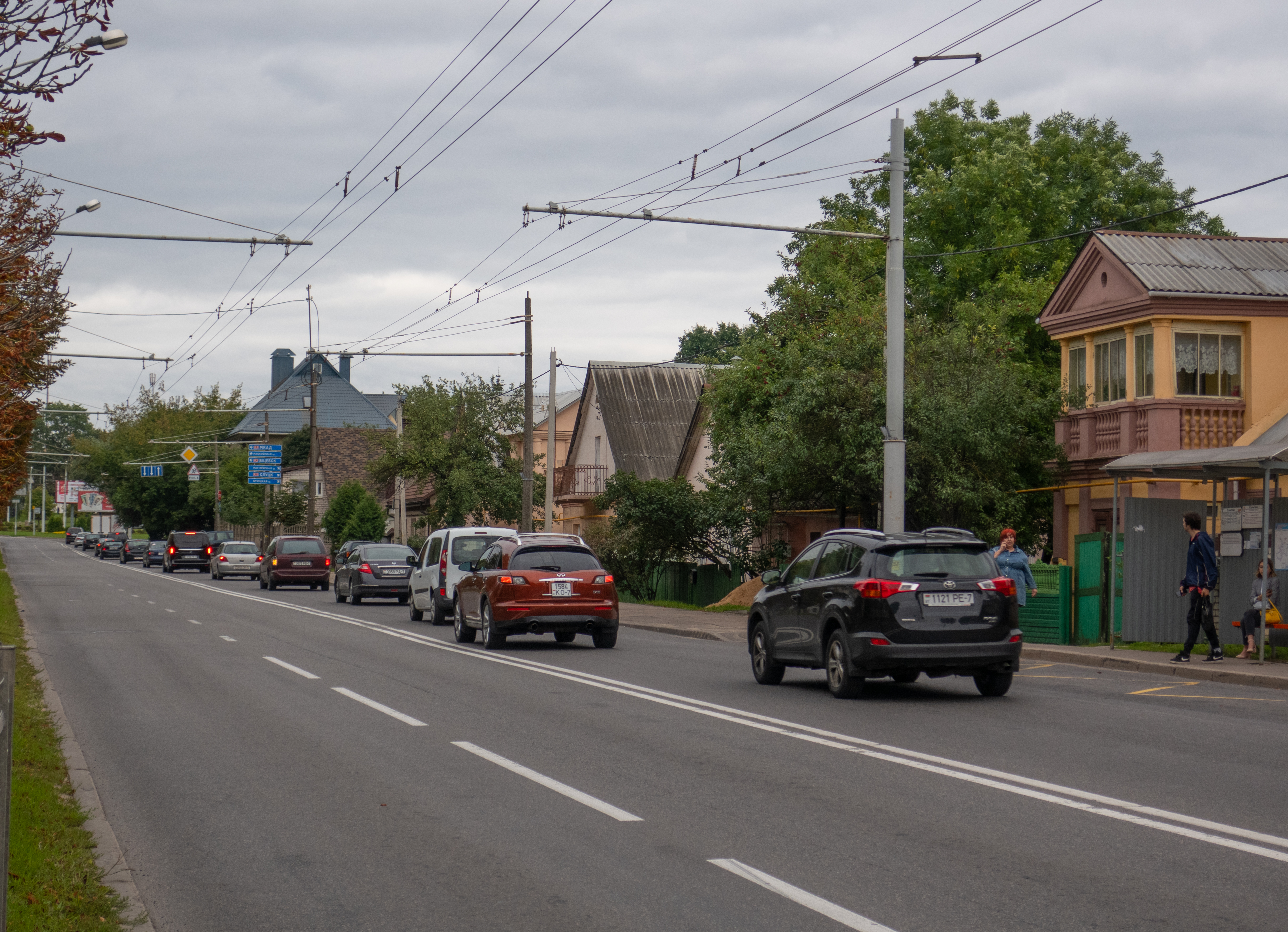 Stalietava street. Minsk, Belarus